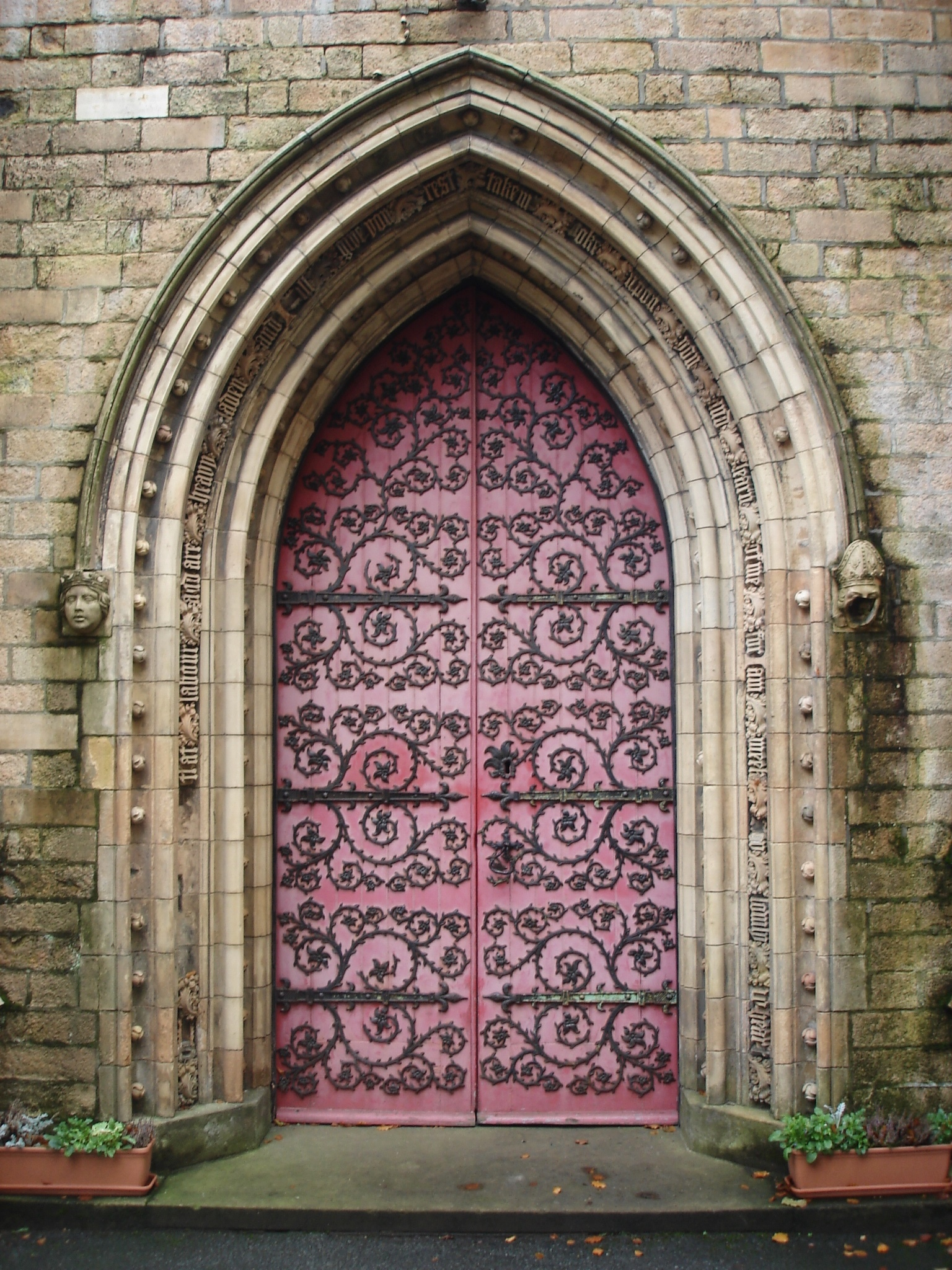 Doorway of St Stephen and All Martyrs' parish church, Little Lever, Bolton, Greater Manchester